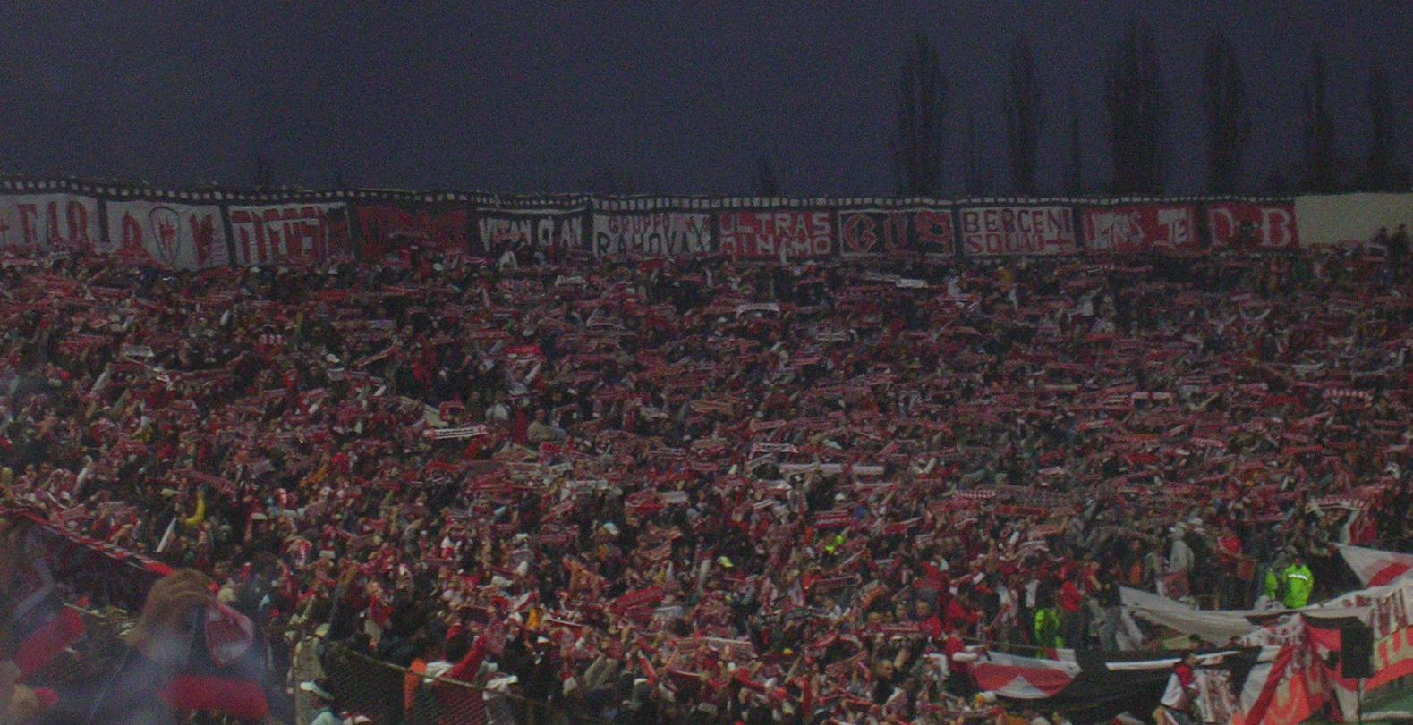 Dinamo fans in the 2005 derby.